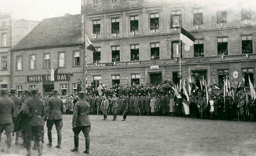 Gathering on Hlucin square on 28th October 1938. Members of Sokol. Town Hall.